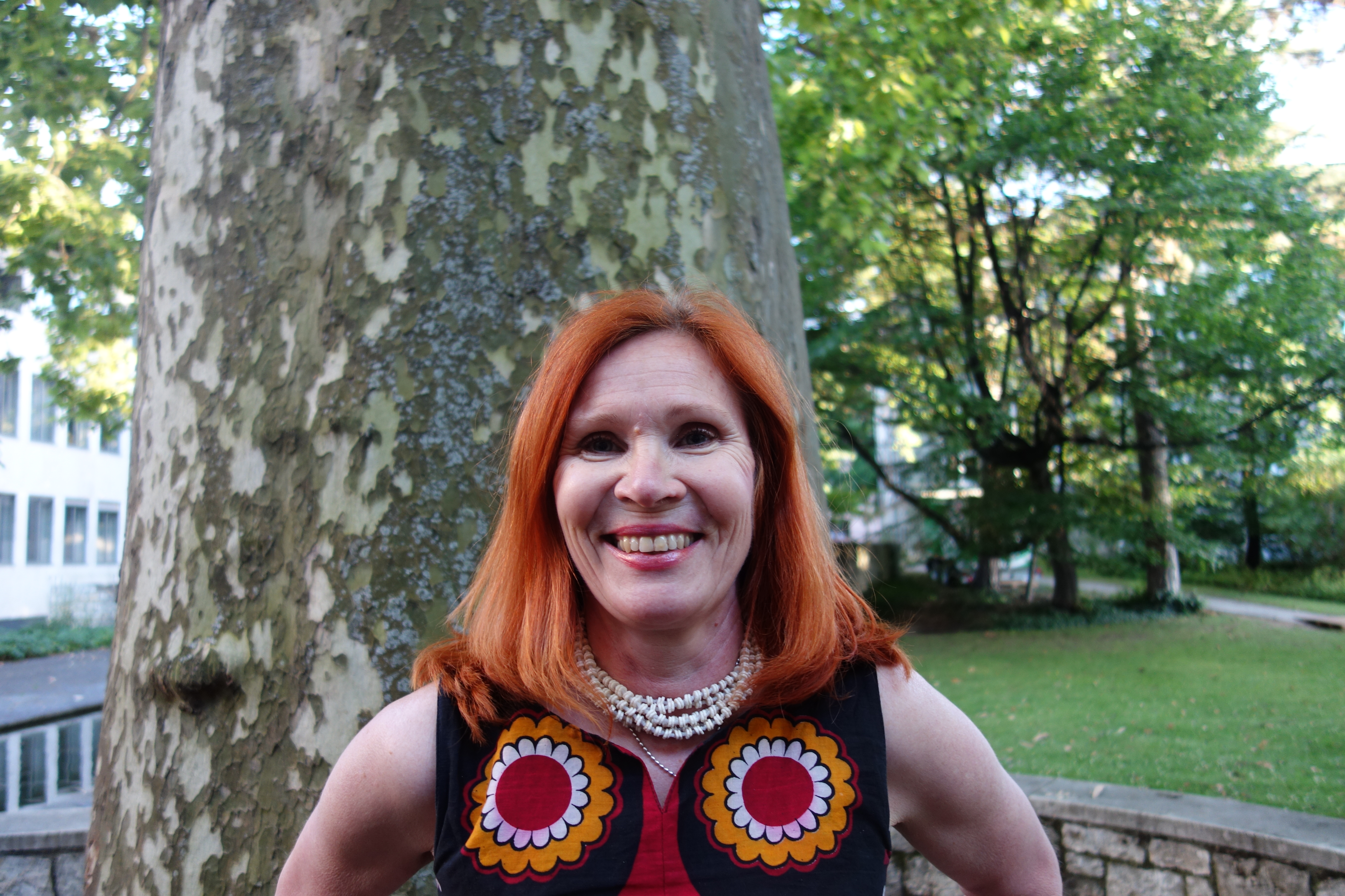 Finnish social scientist (and director Nordic Africa Institute Uppsala) Iina Soiri, at Basel University - Kollegienhaus (ECAS7, June 2017)